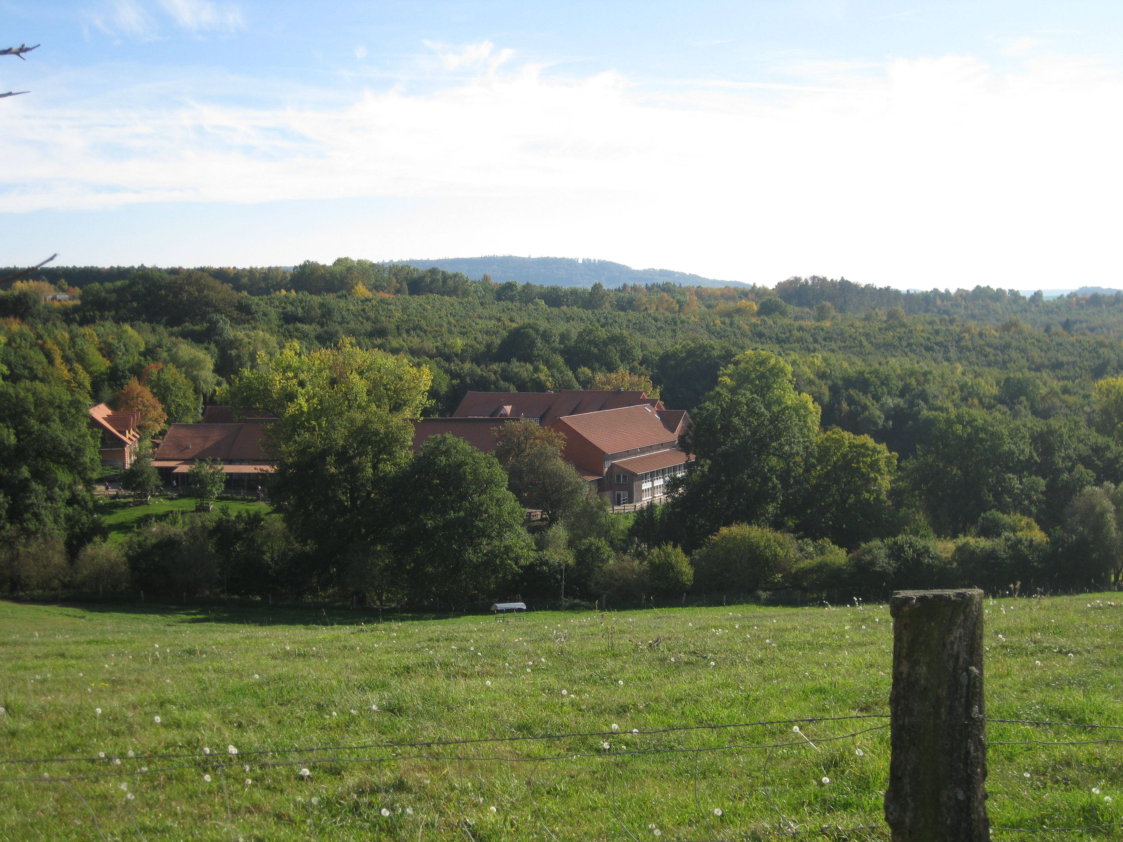 Gut Herbigshagen, dahinter der Duderstädter Stadtwald, im Hintergrund das Ohmgebirge mit dem Trogberg